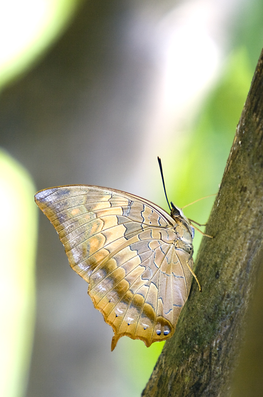 Charaxes bernardus